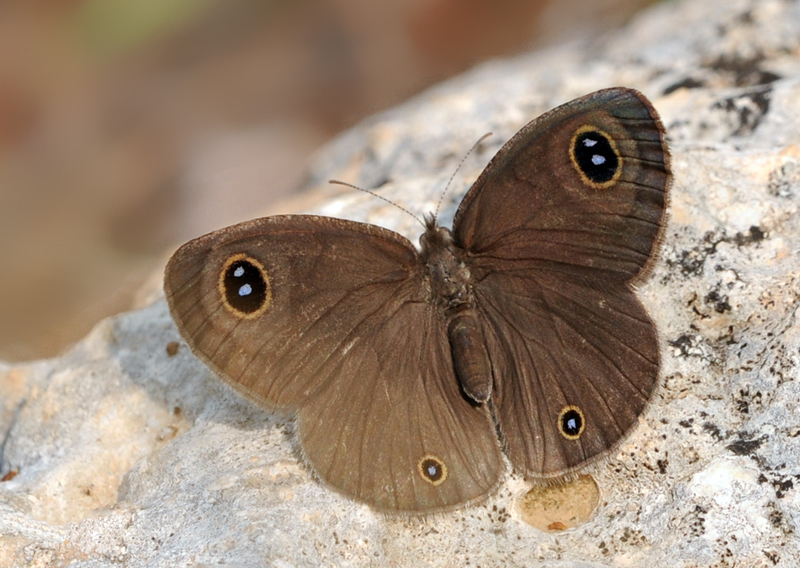 Wing upperside view of a "african ringlet" (Ypthima asterope). Osmaniye, Turkey. 140 m.